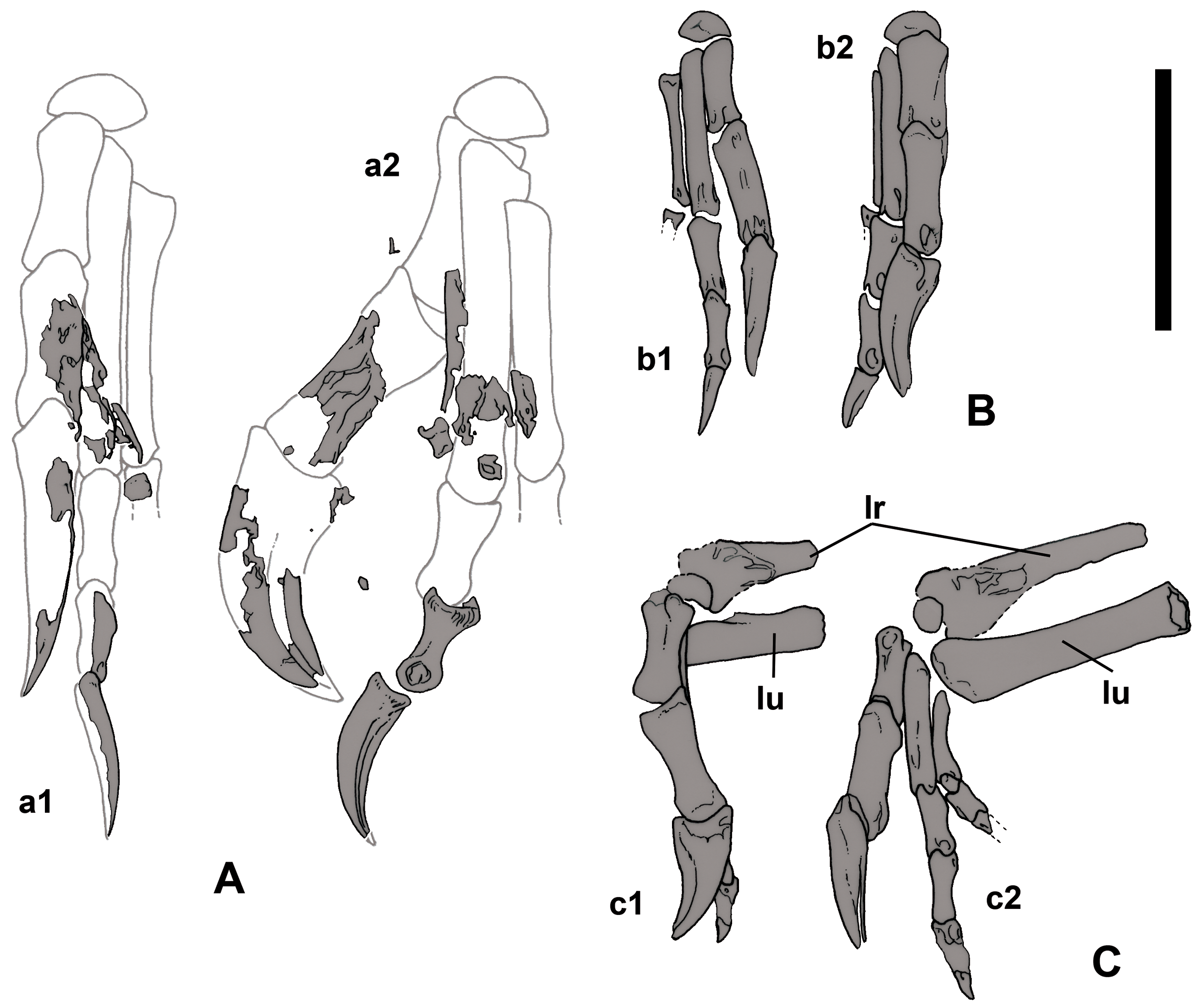 Hands of Nemegtomaia barsboldi. A, preserved elements and reconstructed manus of MPC-D 107/15 in dorsal (a1) and lateral (a2) views: B, right manus of MPC-D 107/16 in dorsal (b1) and medial (b2) views; C, left manus of MPC-D 107/16 in medial (c1) and dorsal (c2) views, with the preserved distal portions of radius and ulna. lr, left radius; lu, left ulna. Scale bar 5 cm.